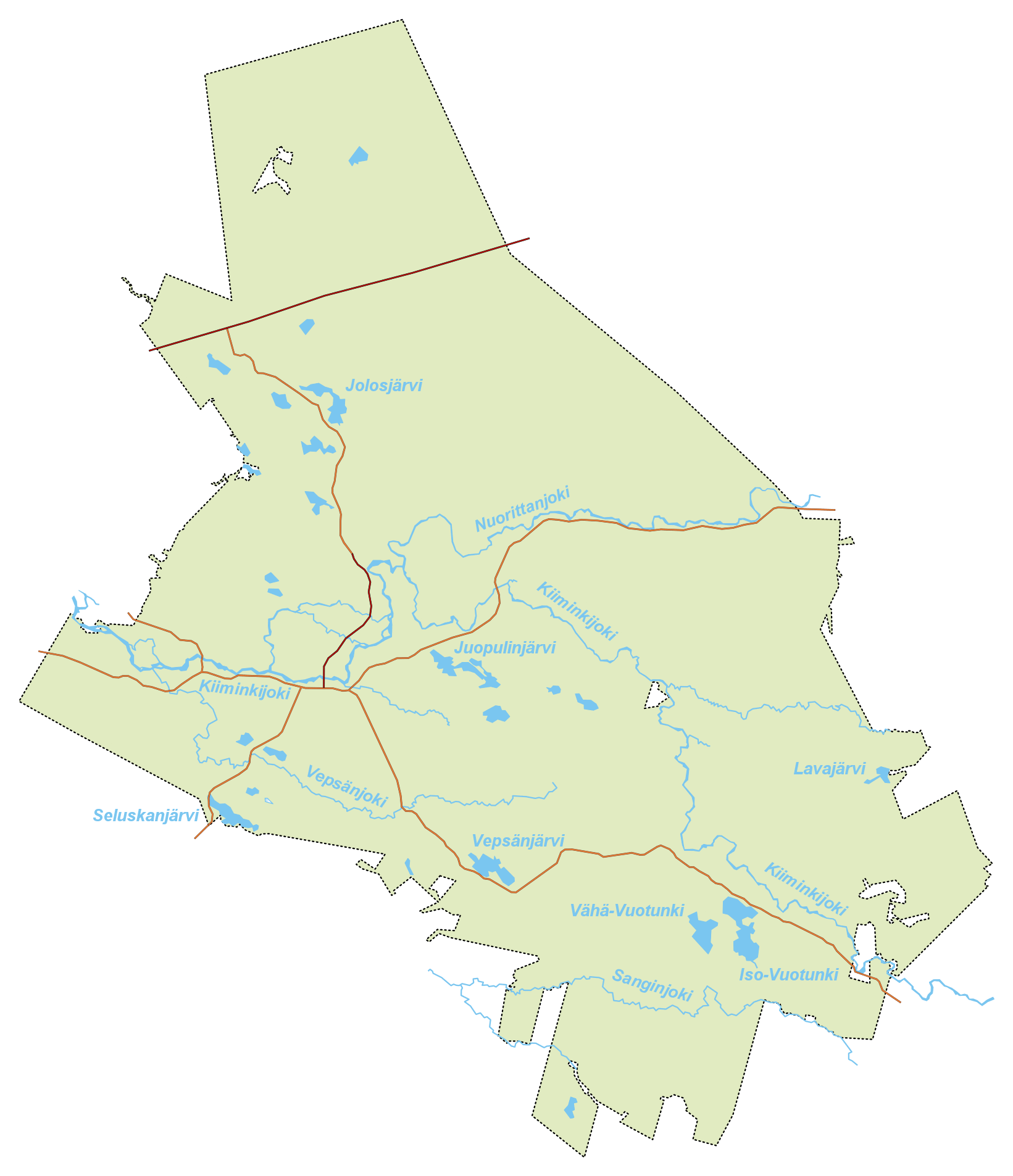 Map showing the lakes and streams in Ylikiiminki municipality, Finland. Based on a blank public domain map created by fi-Wiki user Ningoy.